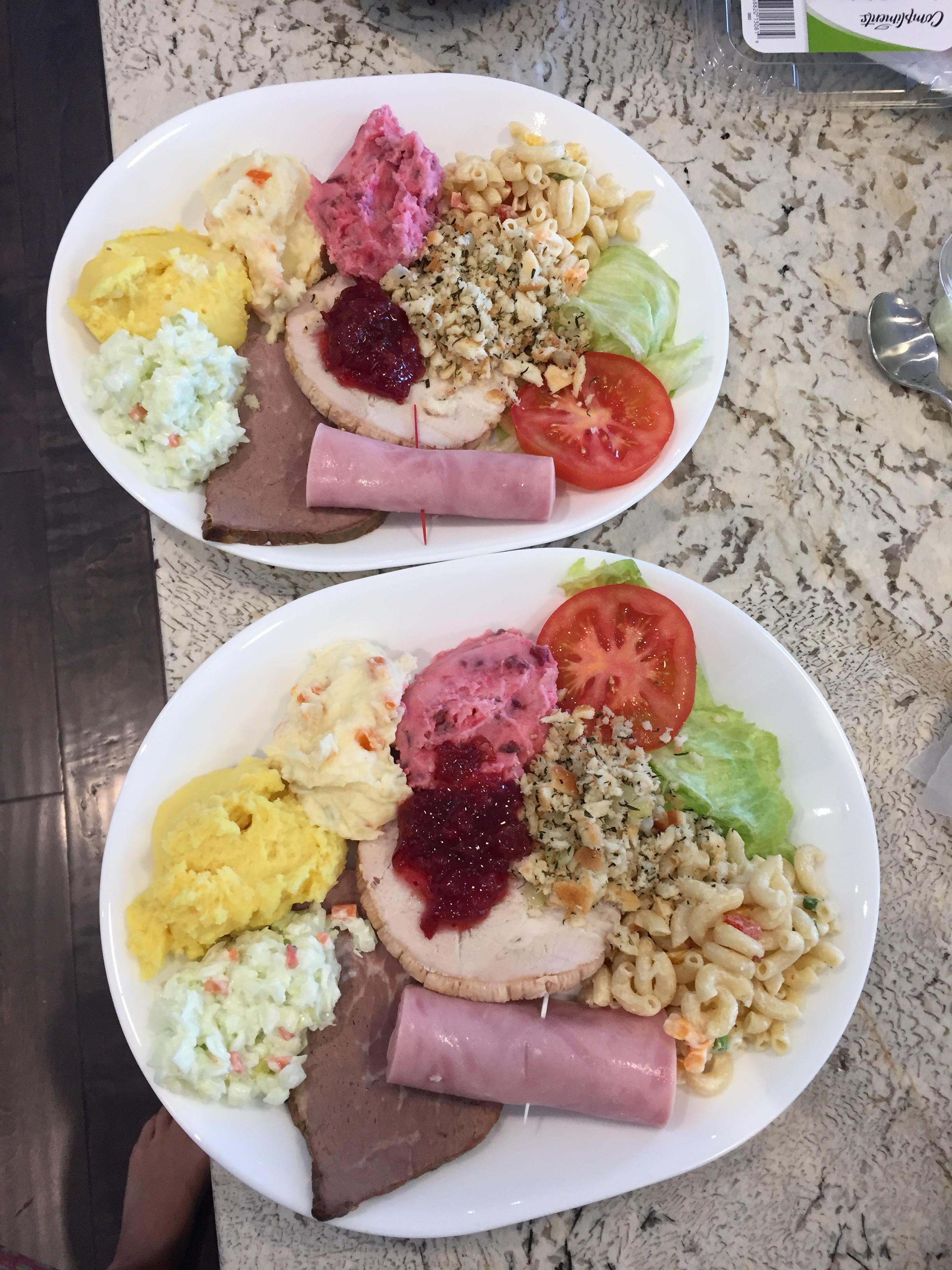 Cold plates usually consist of a piece of turkey, ham, roast beef, tomato, lettuce, macaroni salad, turkey stuffing, and various mashed-potato based salads, such as beet salad, mustard salad, and vegetable salad.